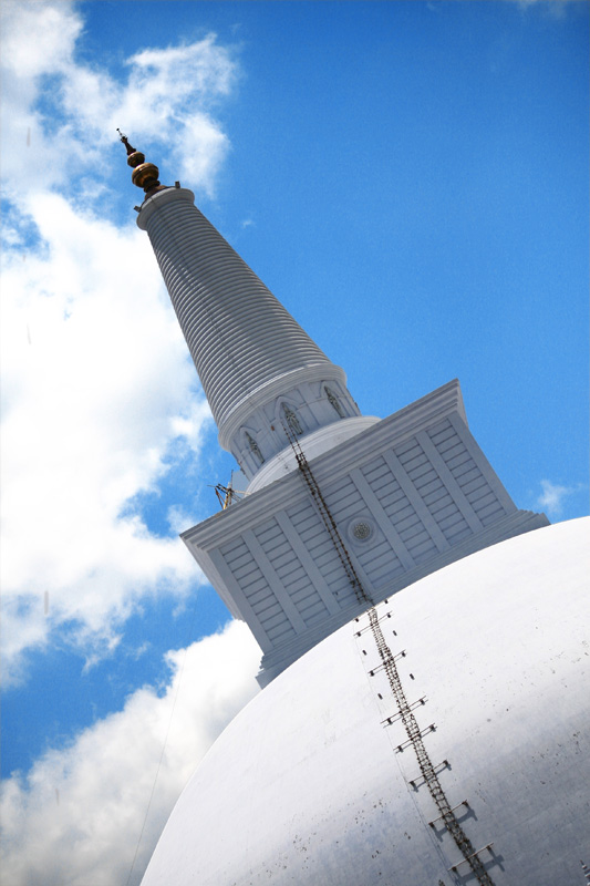 Ruwanveliseya